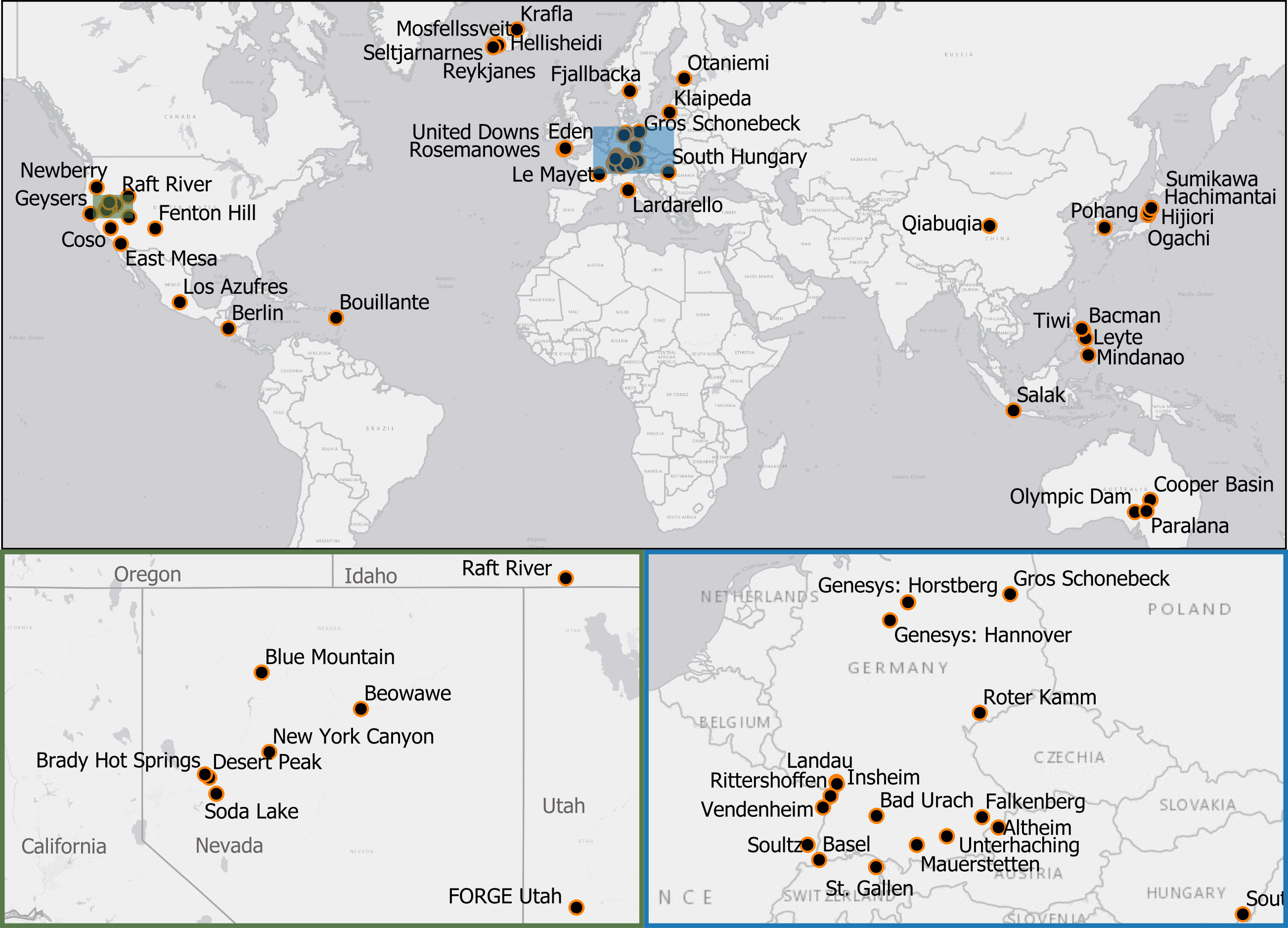 This map shows the location of 64 EGS projects around the world. The map includes a wide range of EGS projects: - from EGS projects that had significant planning but were discontinued to projects that are commercially successful - projects that took place in completely new location without previous developments to projects that took place in the outskirts of established geothermal projects - all methods of stimulation - experimental and commercial